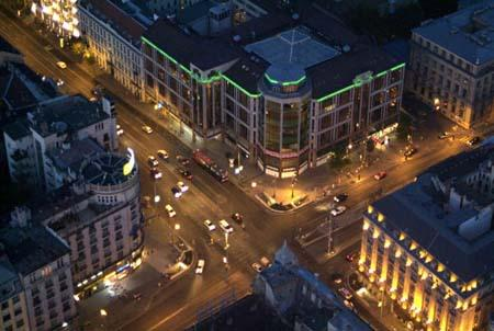 Astoria, Józsefváros, Budapest, Hungary, aerial photography